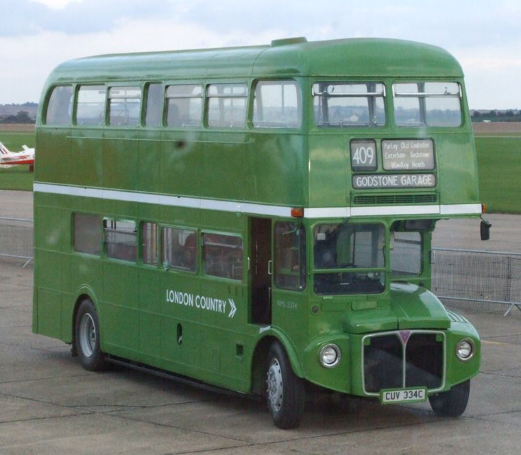 The front offside of preserved Routemaster bus RML2334, pictured at Showbus 2006.